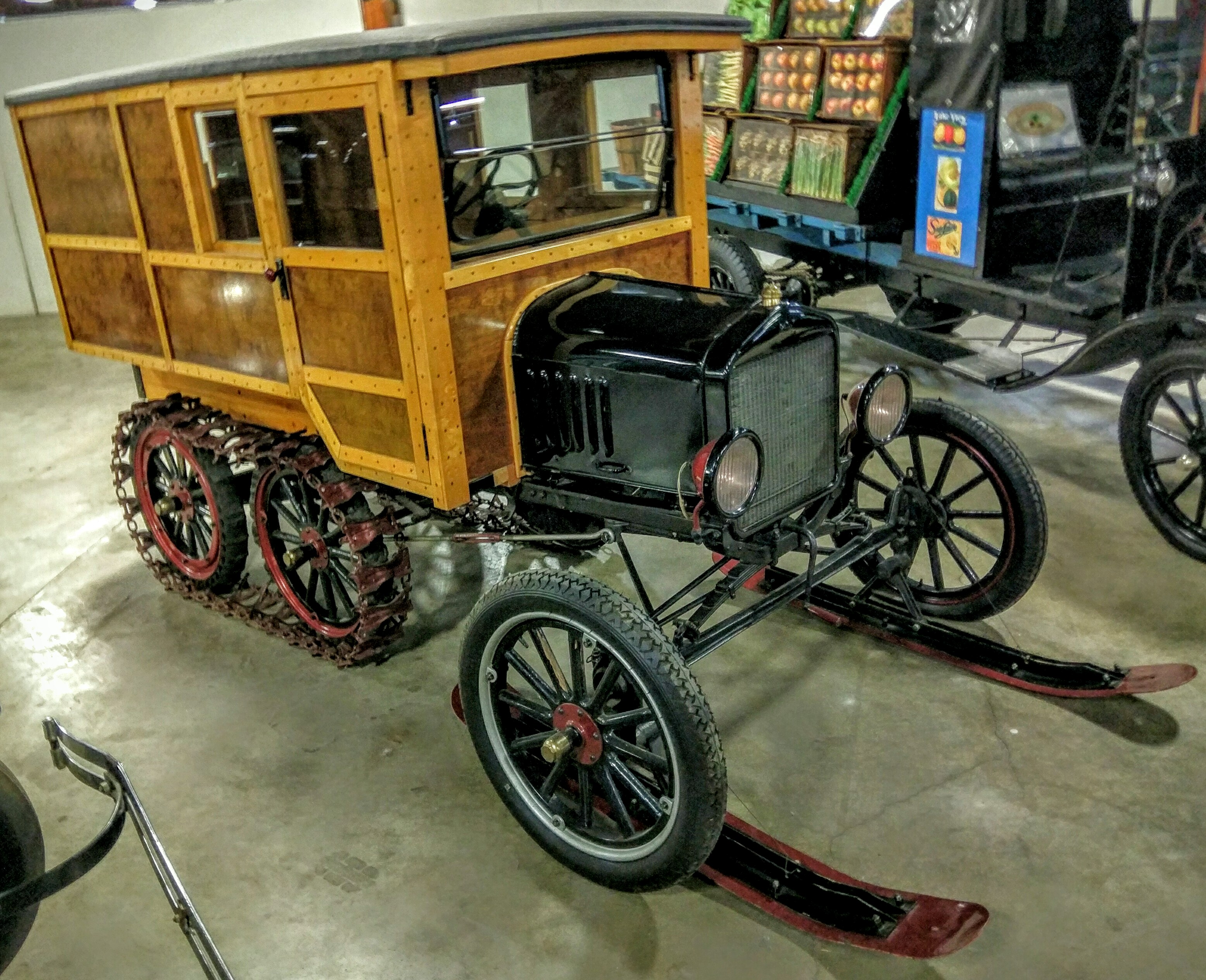 A Model T converted into a snowmobile, on display at the California Automobile Museum. Photo by Jim Heaphy.